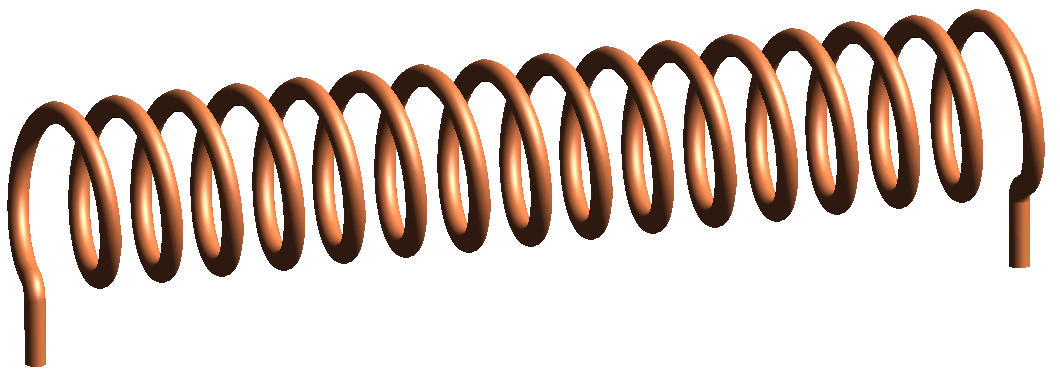 A three-dimensional rendering of a solenoid.